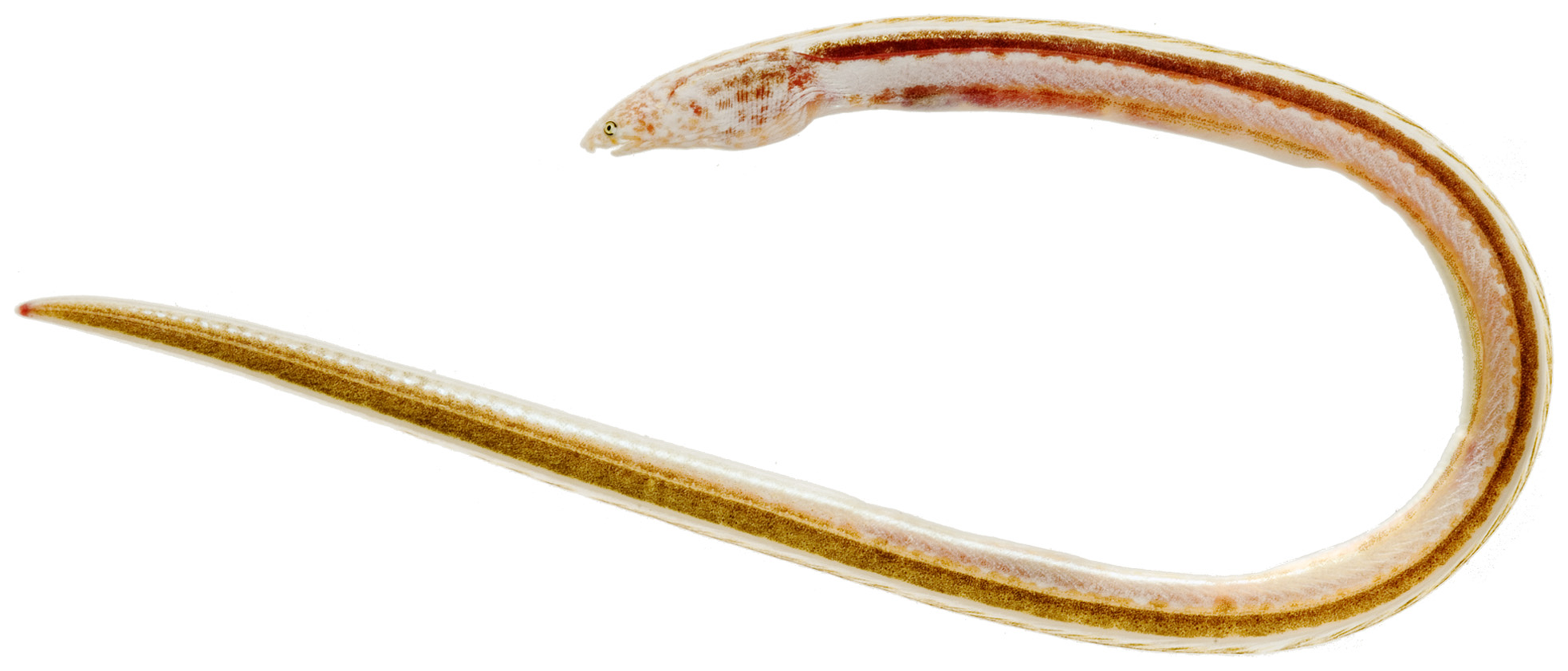 Aprognathodon platyventris Böhlke, 1967—stripe eel, 149.2 mm TL. Photo by JT Williams.